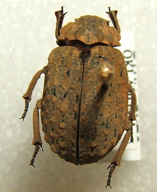 Omorgus monachus adult taken by Shawn Hanrahan at the Texas A&M University Insect Collection in College Station, Texas.